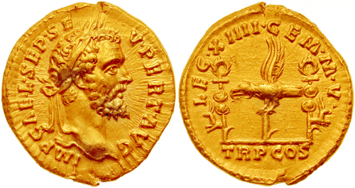 Septimius Severus, 193-211 AD. Aureus (7.23 gm). Struck 193 AD to celebrate the legion that proclamed him emperor. IMP CAE L SEP SE-V PERT AVG, laureate head right LEG XIIII GEM M V, TR P COS in exergue, legionary eagle between two standards. RIC IV 14; BMCRE 18; Cohen 271. Good VF.